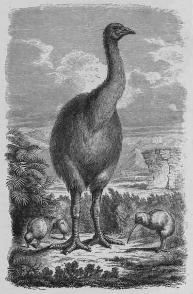 Outdated illustration of the extinct moa Dinornis novaezealandiae (synonym=Palapteryx ingens).